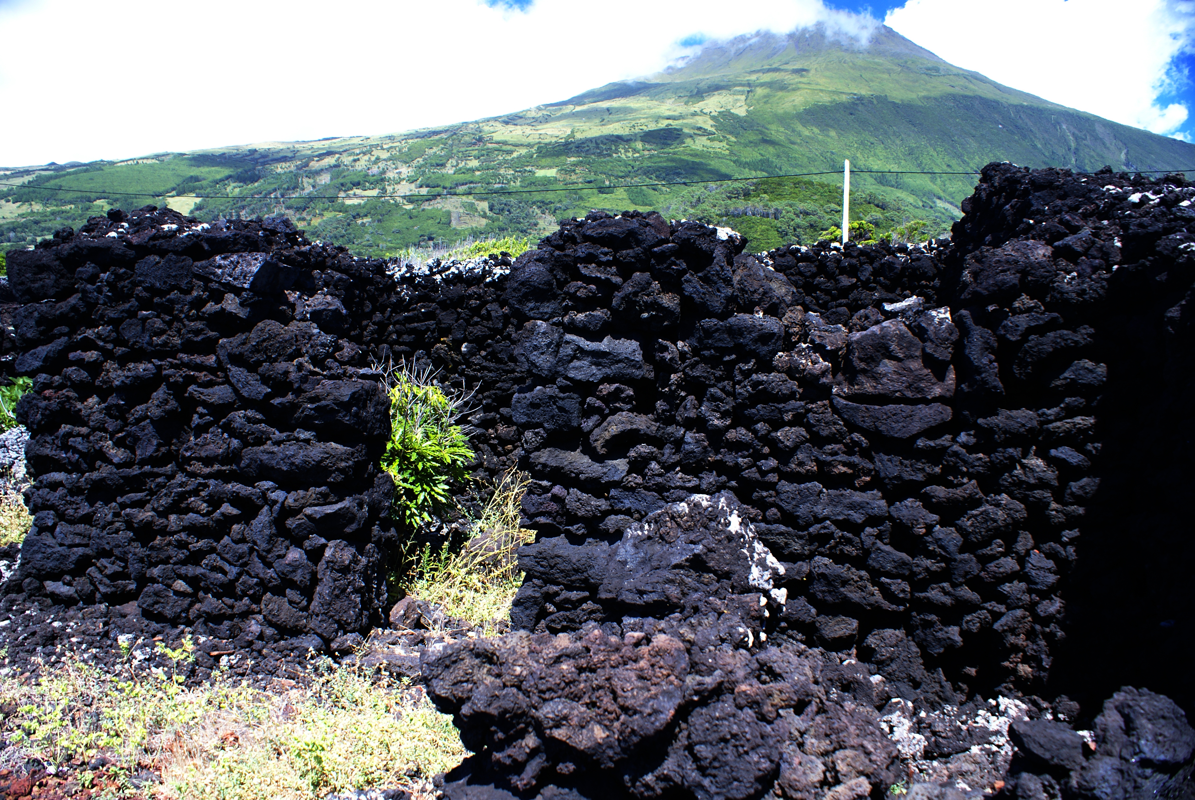 Vinhas de São Caetano, São Mateus, Madalena, ilha do Pico, Açores, Portugal